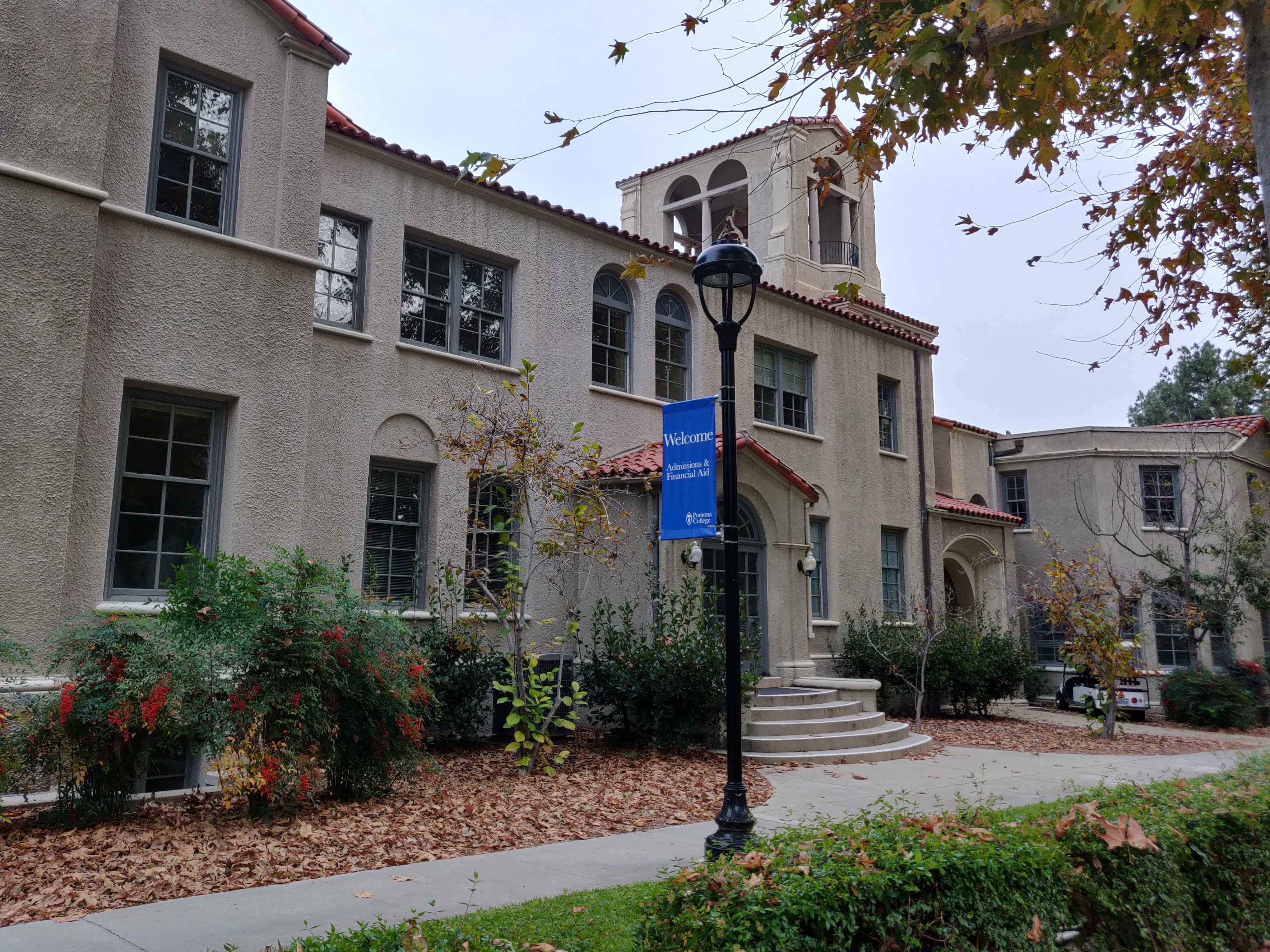 Sumner Hall at Pomona College, home to the Office of Admissions